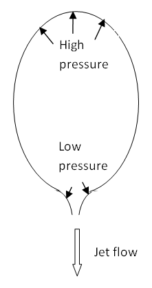 a balloon with a tapering nozzle with microsoft draw